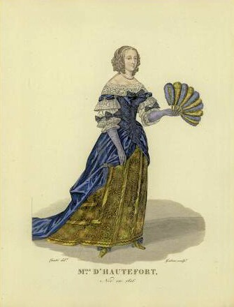 Portrait of Marie de Hautefort. Handcolored engraved by Georges Jacques Gatine after Louis-Marie Lanté.